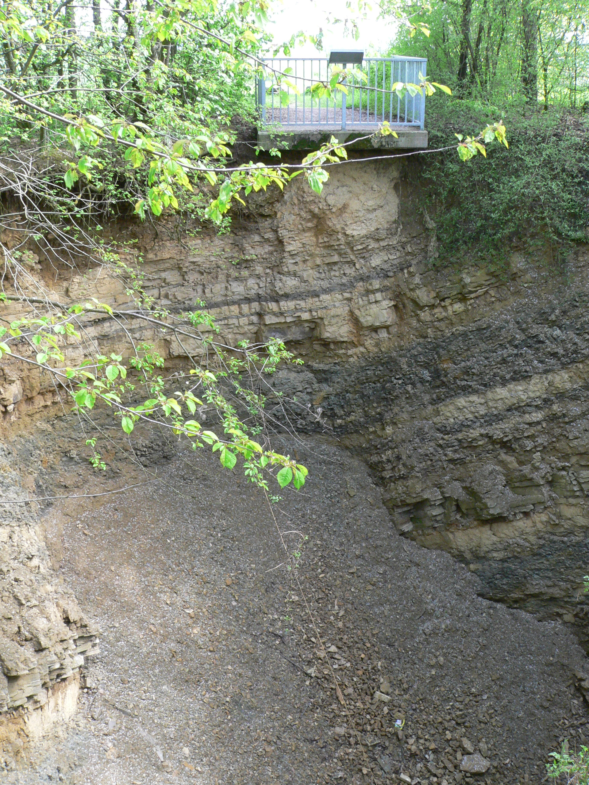 The sinkhole "Neues Eisinger Loch" near Neulingen, Germany